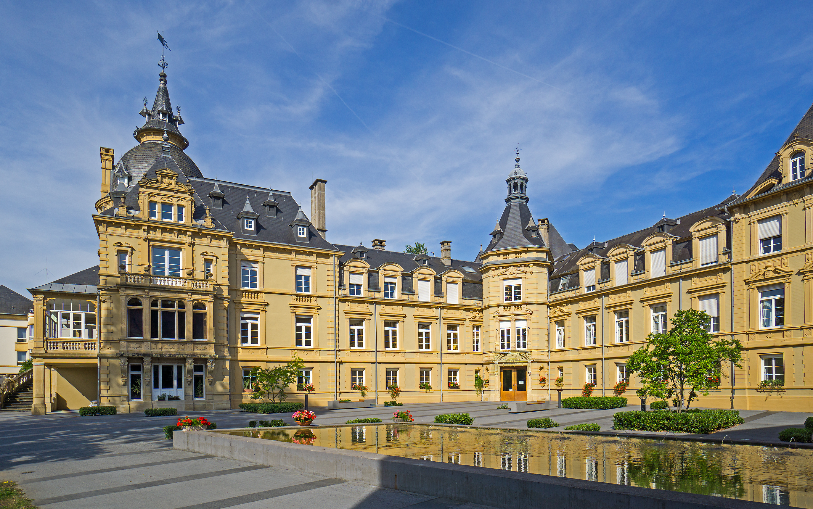 Chateau de Heisdorf